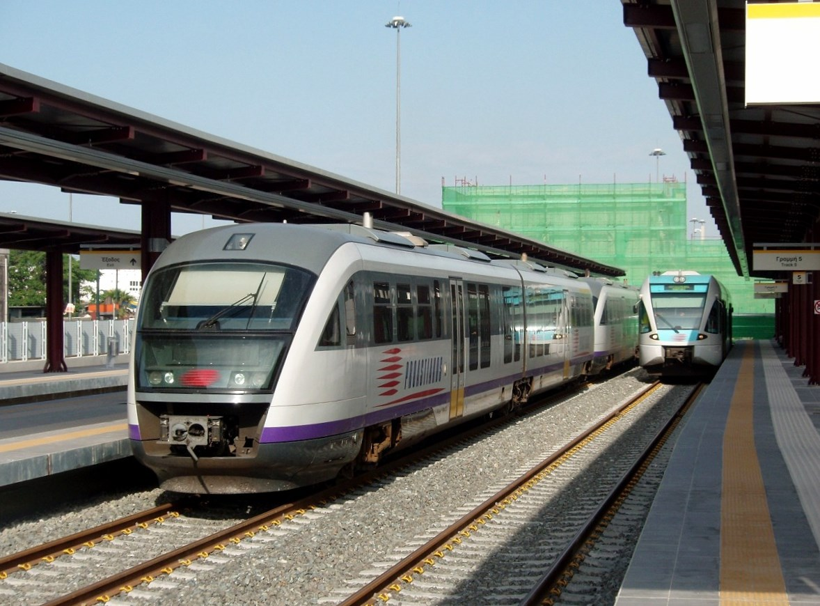 A Piraeus-Corinth train made of two Desiro DMU-2s and a single Staedler GTW/2 railbus for the Piraeus-Airport suburban service in Piraeus railway station, Greece.